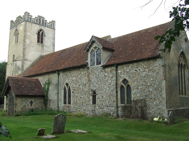 St Nicholas' parish church, Wattisham, Suffolk, seen from the southeast